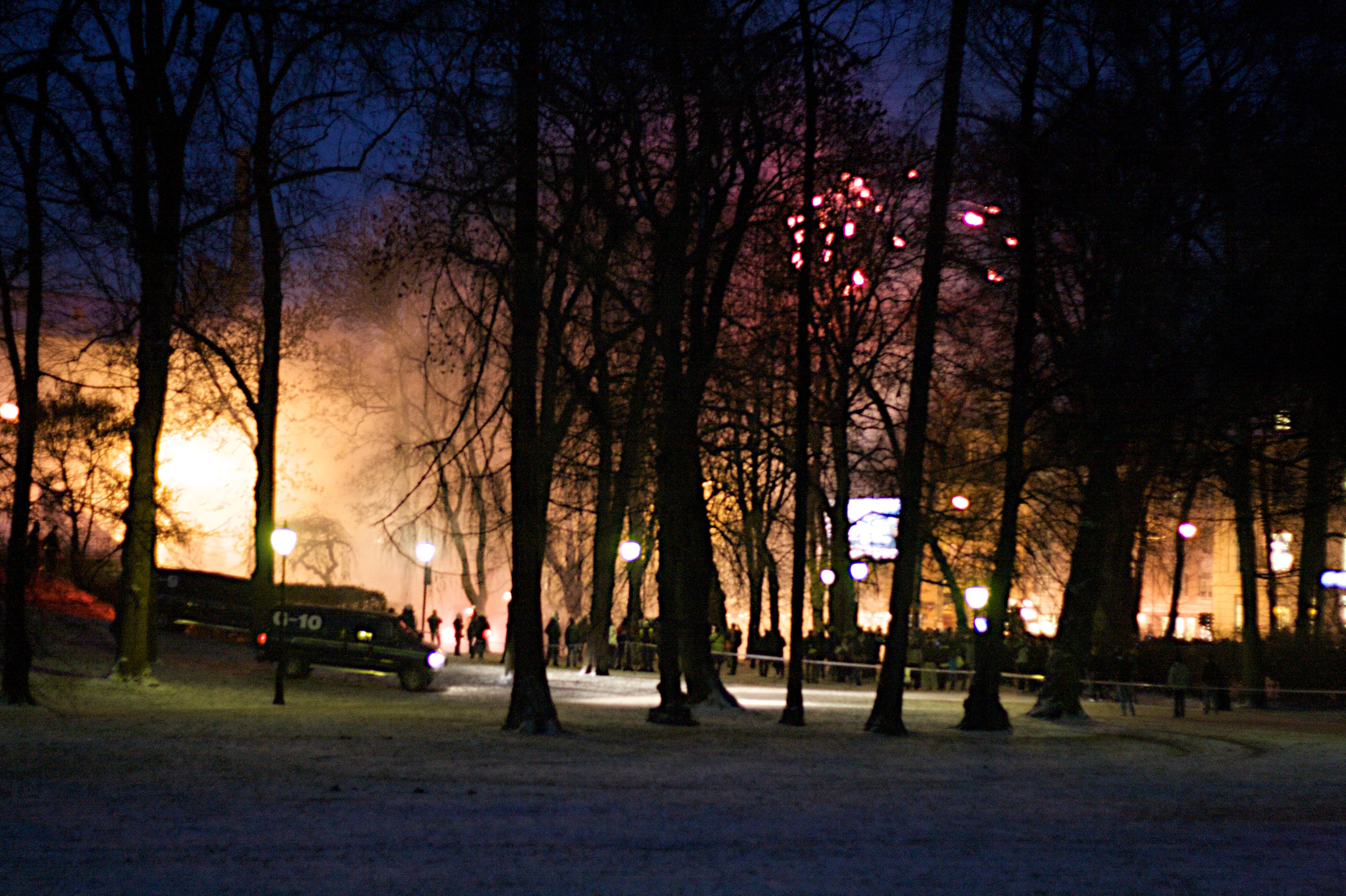 Oslo riots on 10 January 2009.